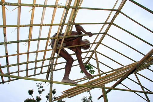 Mru-people making their house top of the hill where no general people will go.This is their ancient tradition.They dont live with modern culture.They love to live nudity which is their own culture.